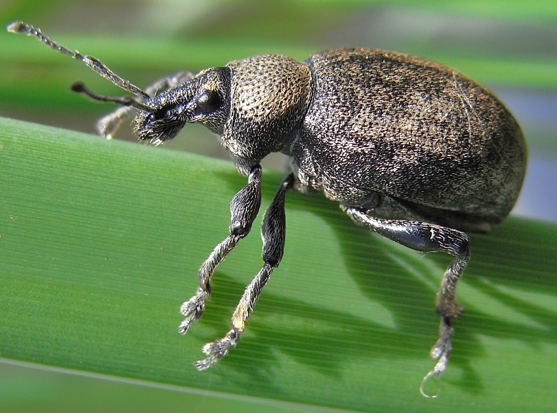 Otiorhynchus ligustici from Hungary near Hercegszanto at 2010-05-14